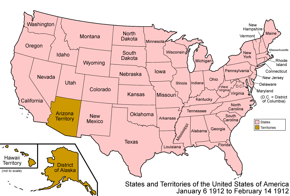 Map of the states and territories of the United States as it was from January 1912 to February 1912. On January 6 1912, New Mexico Territory was admitted as the state of New Mexico. On February 14 1912, Arizona Territory was admitted as the state of Arizona.